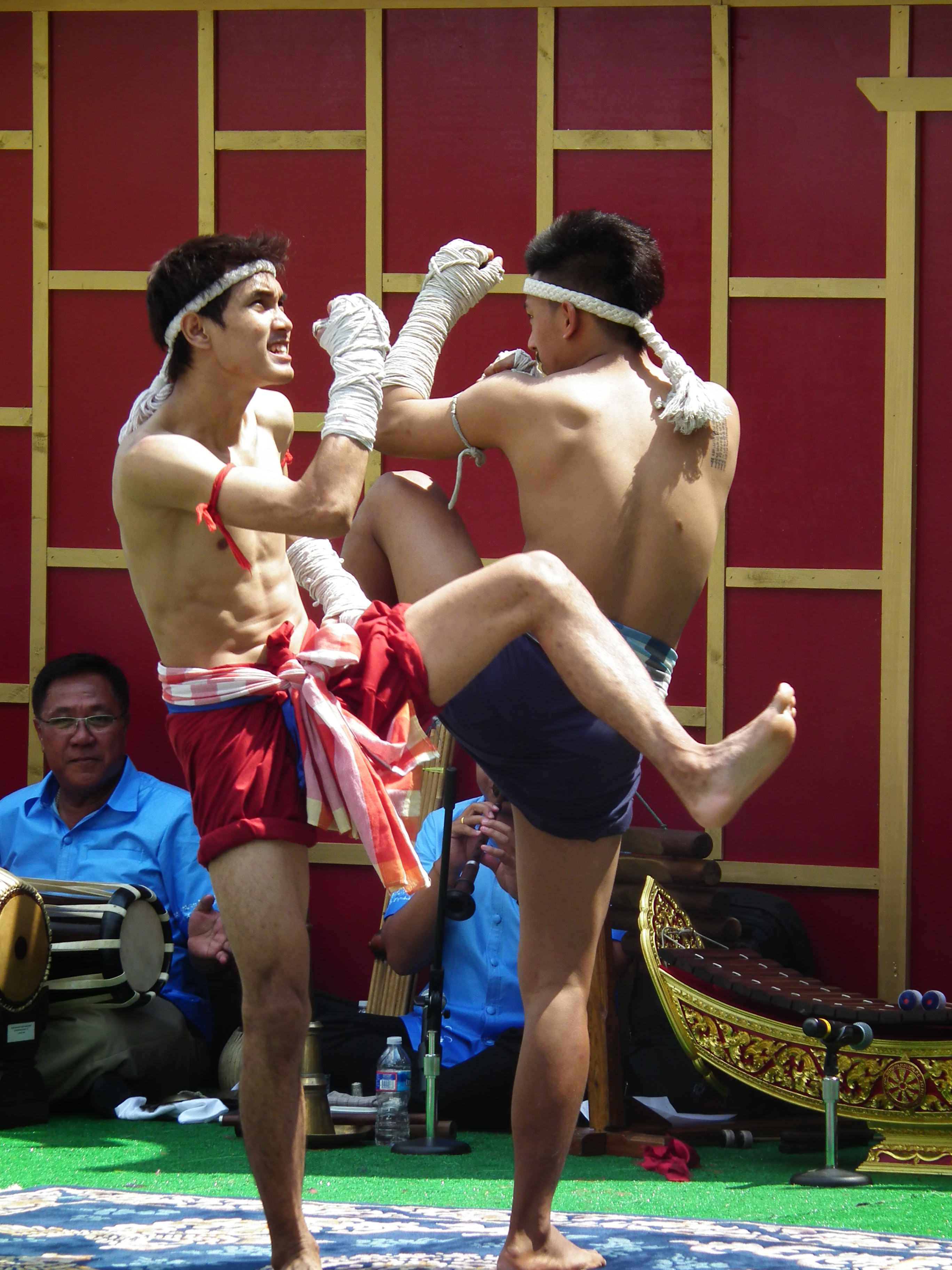 Wat Thai Village DC 2013